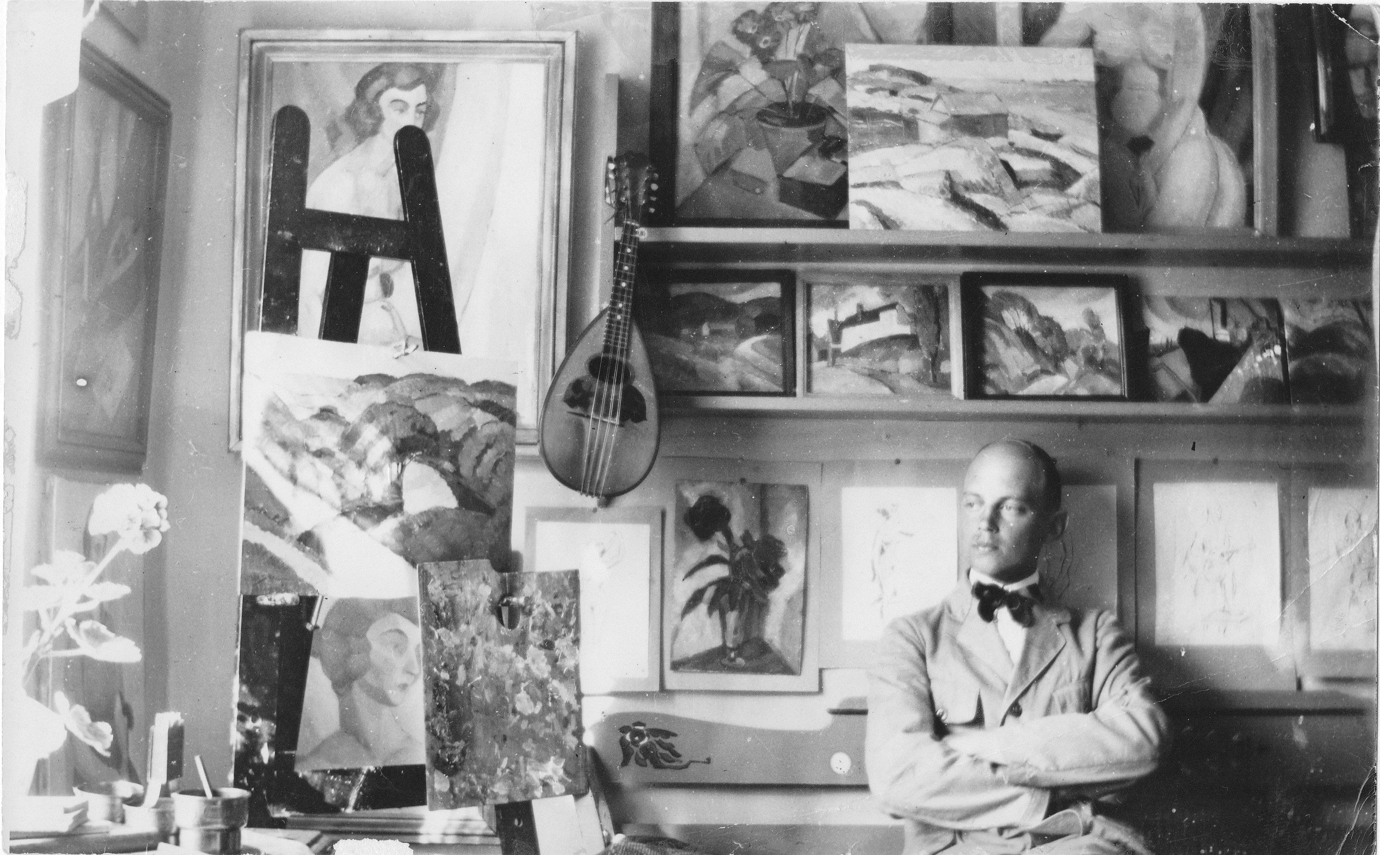 A picture of the artist Erik Sköld.